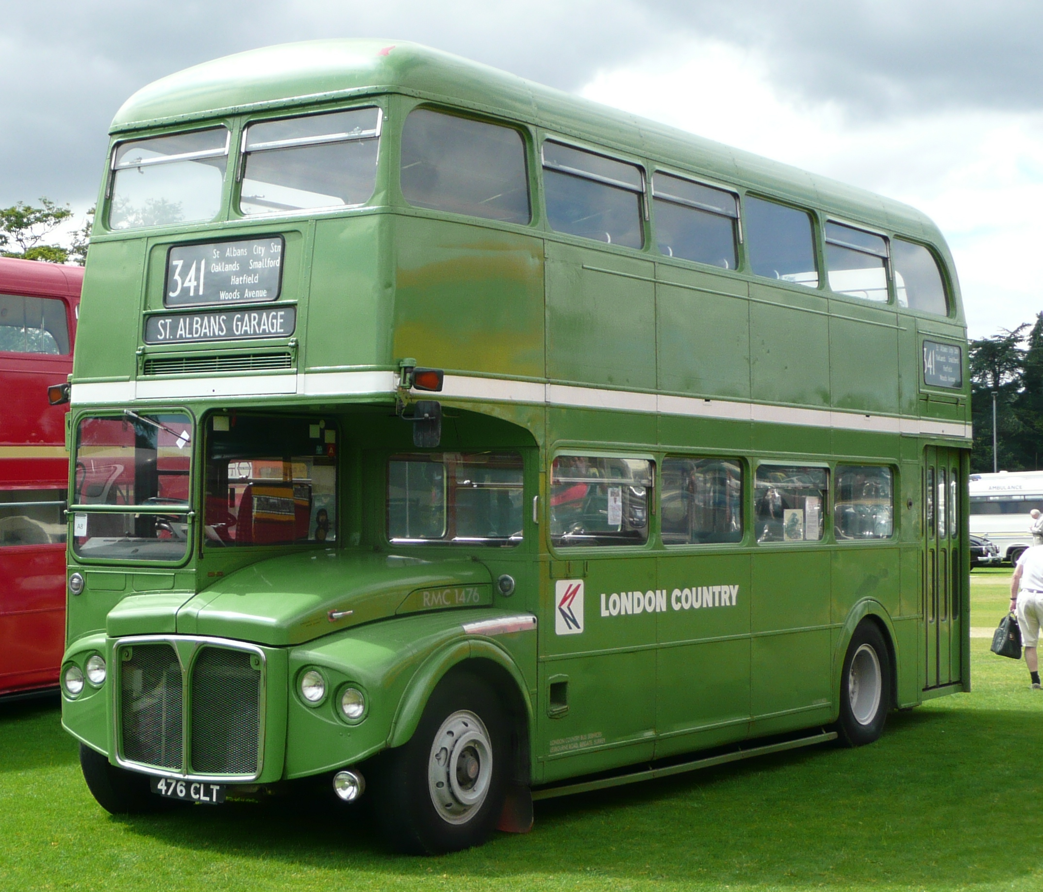 Preserved Routemaster coach RMC1476 (reg. 476 CLT), pictured at the 2008 Alton bus rally, in the colours of London Country Bus Services.